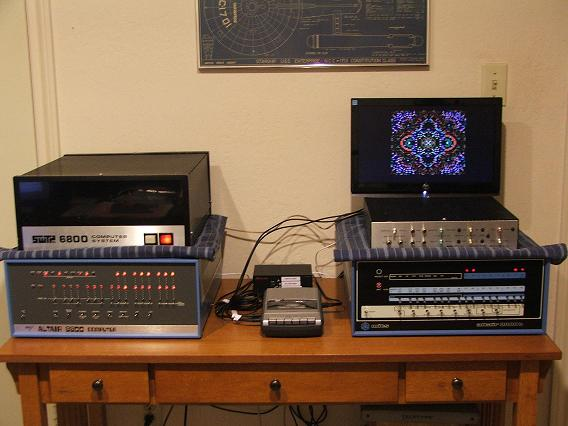 A collection of 70's era microcomputers: SWTPC 6800, Altair 8800 (running a Dazzler program), an Altair 8800B, and an AC-30 Cassette tape interface.